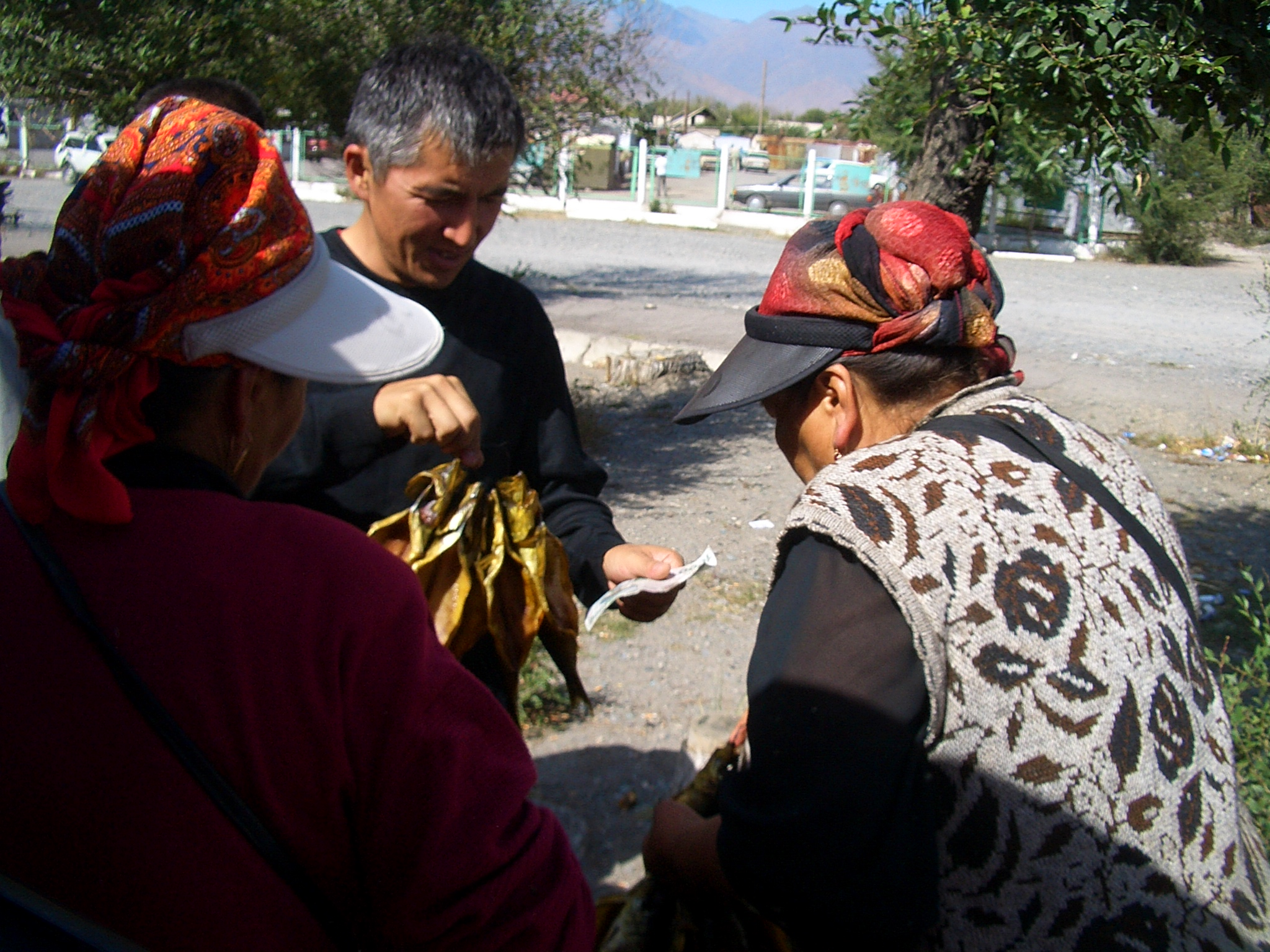 Bus passengers buying dries fish from fish vendor ladies at Balykchy, Issyk Kul Province, Kyrgyzstan.